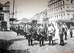 Germans soldiers near to the Guillemins railway station during the World War I.